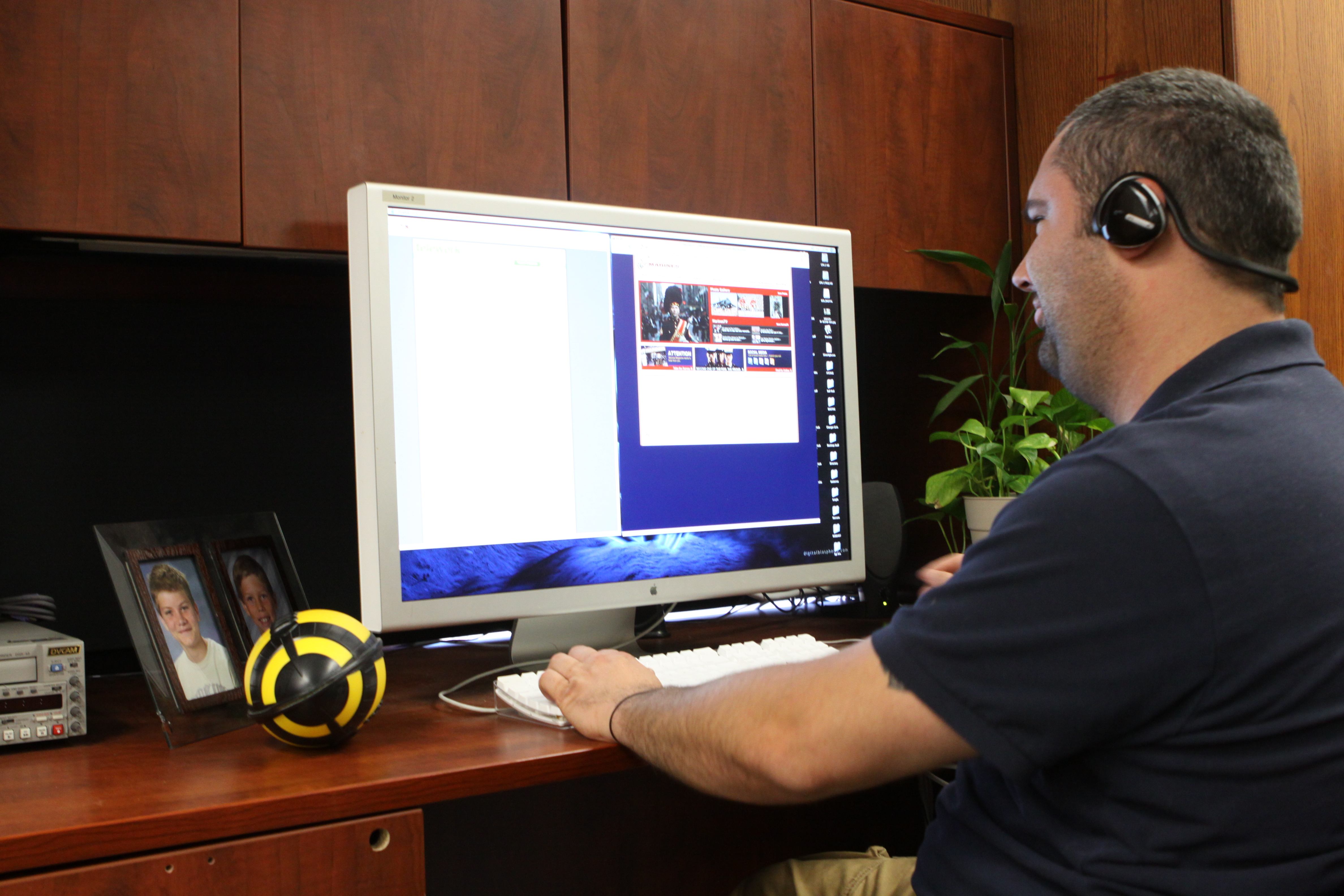 Some of Camp Pendleton's civilian employees will now be able to participate in a new program called Telework. The program extends base civilian workers the opportunity to complete their duties from an alternative location, such as their homes. Base's implementation of Telework was granted through Base Order 12600.1 that was signed by the base’s commanding officer, Col. Nicholas F. Marano, March 18. According to base officials, the program will be especially important during local natural disasters, such as a wild fire, by allowing certain base functions to remain uninterrupted.